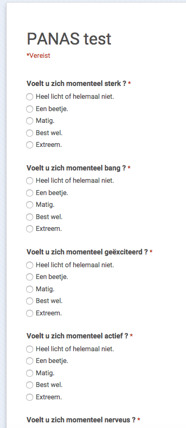 Screenshot of a questionnaire (user survey) for the PANAS test.